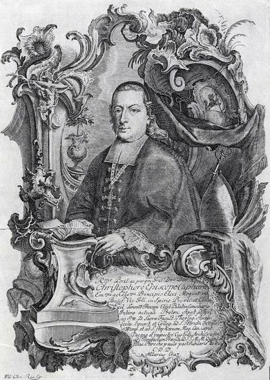 Christoph Nebel (1690-1769), Weihbischof in Mainz